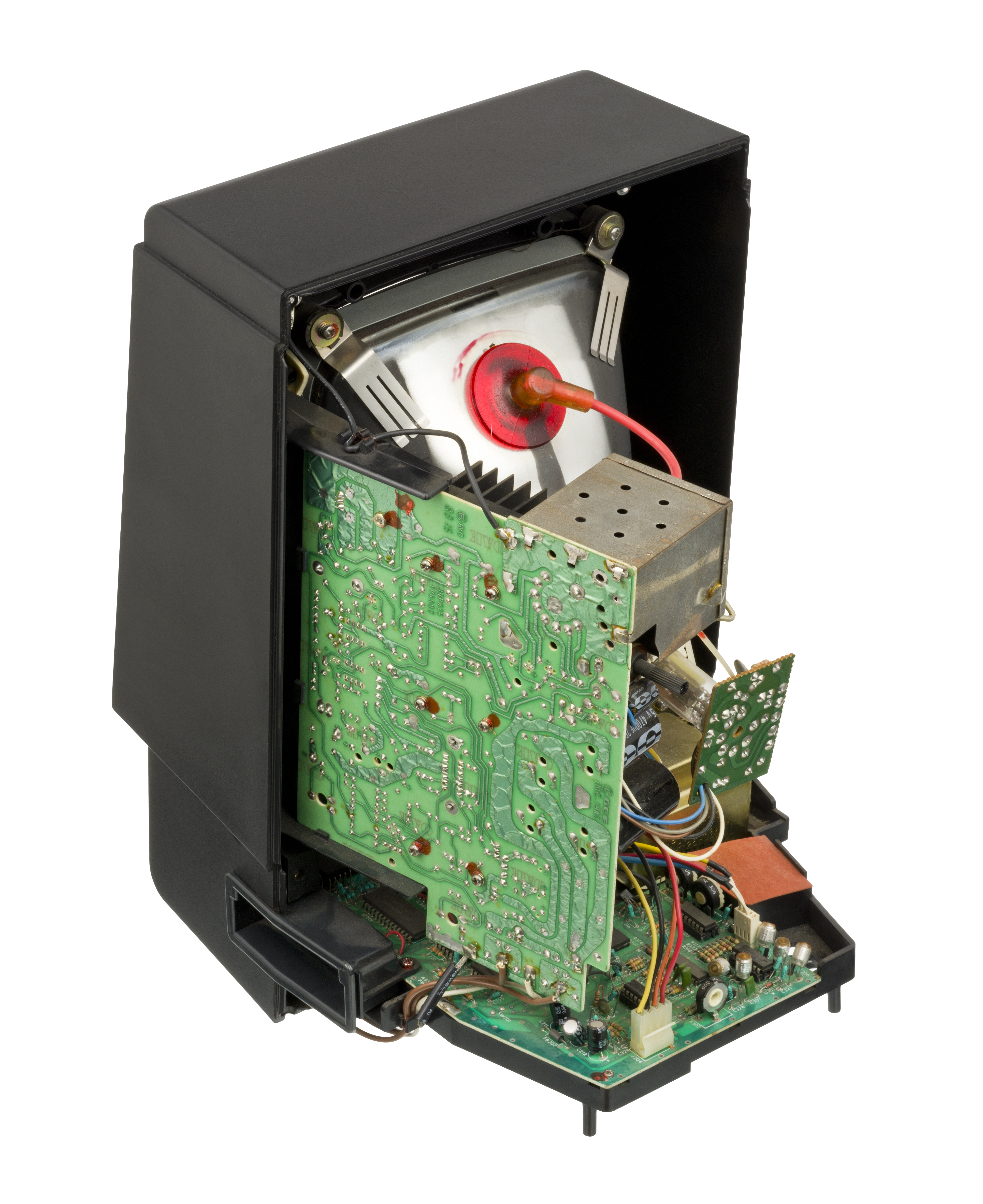 The inside of the Vectrex, an all-in-one video game console made by GCE and first released in 1982. The system is unique for having a built-in CRT television that has been modified to display vector graphics, offering smooth, line-based visuals. The Vectrex released at the beginning of the 1983 video game crash, and the collapse of the industry led to the system's failure.